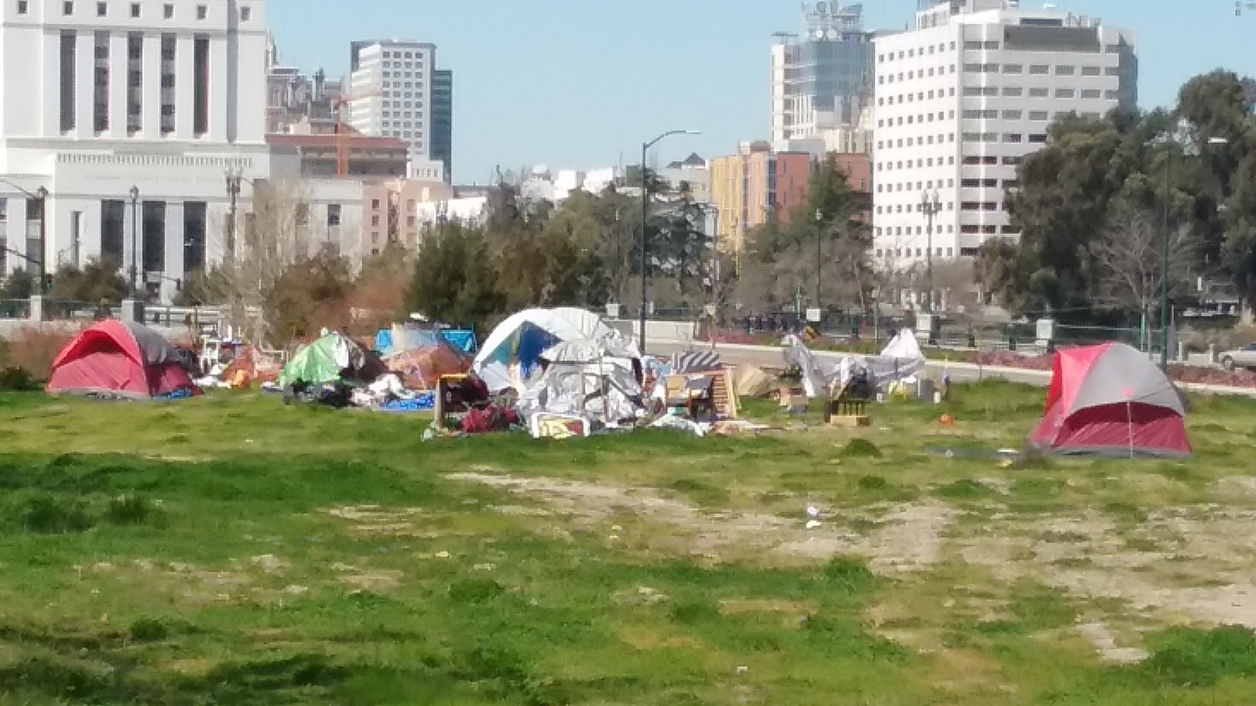 Homeless community at E. 12th Street (Oakland, CA)